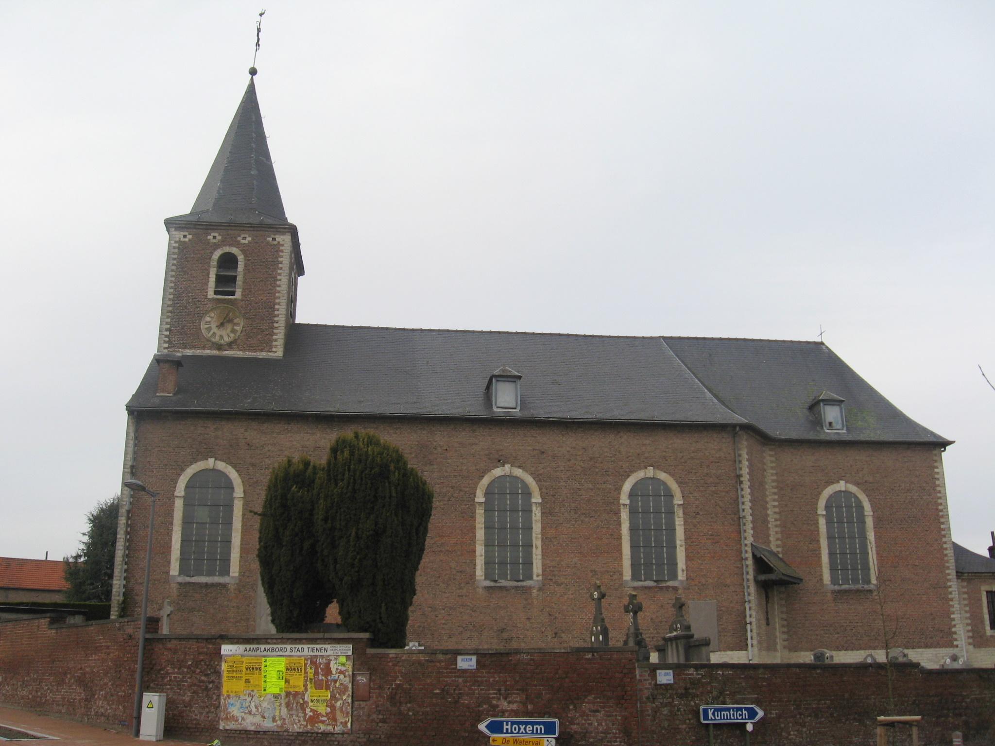 Church od Saint George in Oorbeek, Tienen, Flemish Brabant, Belgium